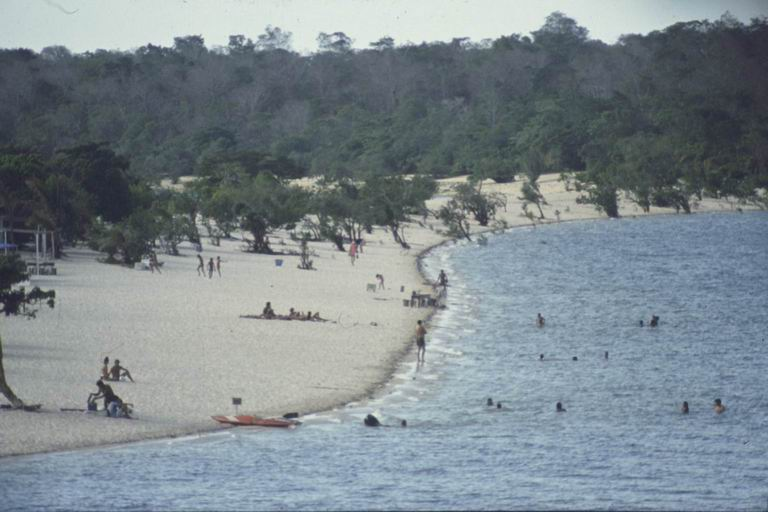 Purus created by he:משתמש:בן הטבע